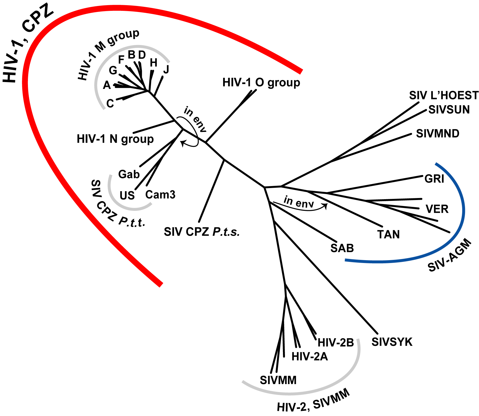 Phylogenetic Tree of the SIV and HIV viruses. Viruses Depicted in HIV-SIV Phylogenetic Tree Human HIV-1 M (Main) group, including reference strains from subtypes A-J. Group M is responsible for the pandemic. HIV-1 O (Outlier) group, most commonly found in West Africa HIV-1 N (Not-M, Not-O) group, found in a very small number of individuals in West Africa HIV-1 M group reference strains: A_UG.U455, A_KE.Q2317, B_US.JRFL, B_US.WEAU160, C_ET.ETH2220, C_IN.21068, D_ZR.NDK, D_ZR.ELI, F_FI.FIN6393, F_BE.VI850, G_SE.SE6165, G_BE.DRCBL, H_CF.90CF056, H_BE.VI997, J_SE.SE91733, J_SE.SE92809, and CRF01 AE_CF.90CF402 and AE_TH.CM240, which are subtype A in pol. HIV-1 N group: N_CM.YBF30 HIV-1 O group: O_CM.ANT70, O_CM.MVP5180 HIV-2 subtypes A and B: H2A_DE.BEN, H2A_SN.ST, H2B_GH.D205, and H2B_CI.EHO Simian SIVcpz from chimpanzee Pan troglodytes troglodytes (P.t.t.): SIVcpz.GAB, SIVcpz.US, and SIVcpz.Cam3 SIVcpz from chimpanzee Pan troglodytes shweinfuthii (P.t.s.): SIVcpz.ANT SIV African Green Monkey (SIVagm): Tantalus (TAN): SIVagm.TAN1 Vervet (VER): SIVagm.VERTYO, SIVagm.VERAGM3, SIVagm.VER9063, SIVagm.VER155 Grivet (GRI): SIVagm.GRI677 Sabaeus (SAB): SIVagm.SAB1C SIV Sooty Mangaby (SIVsm) (also found in macaques): SIVsm.mac251, SIVsm.smm9 SIV L’hoest: SIV.LHOEST SIV Mandrill: SIV.MNDGB1 SIV Sun: SIV.SUN